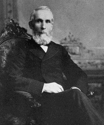 Alexander Mackenzie (1822-1892)